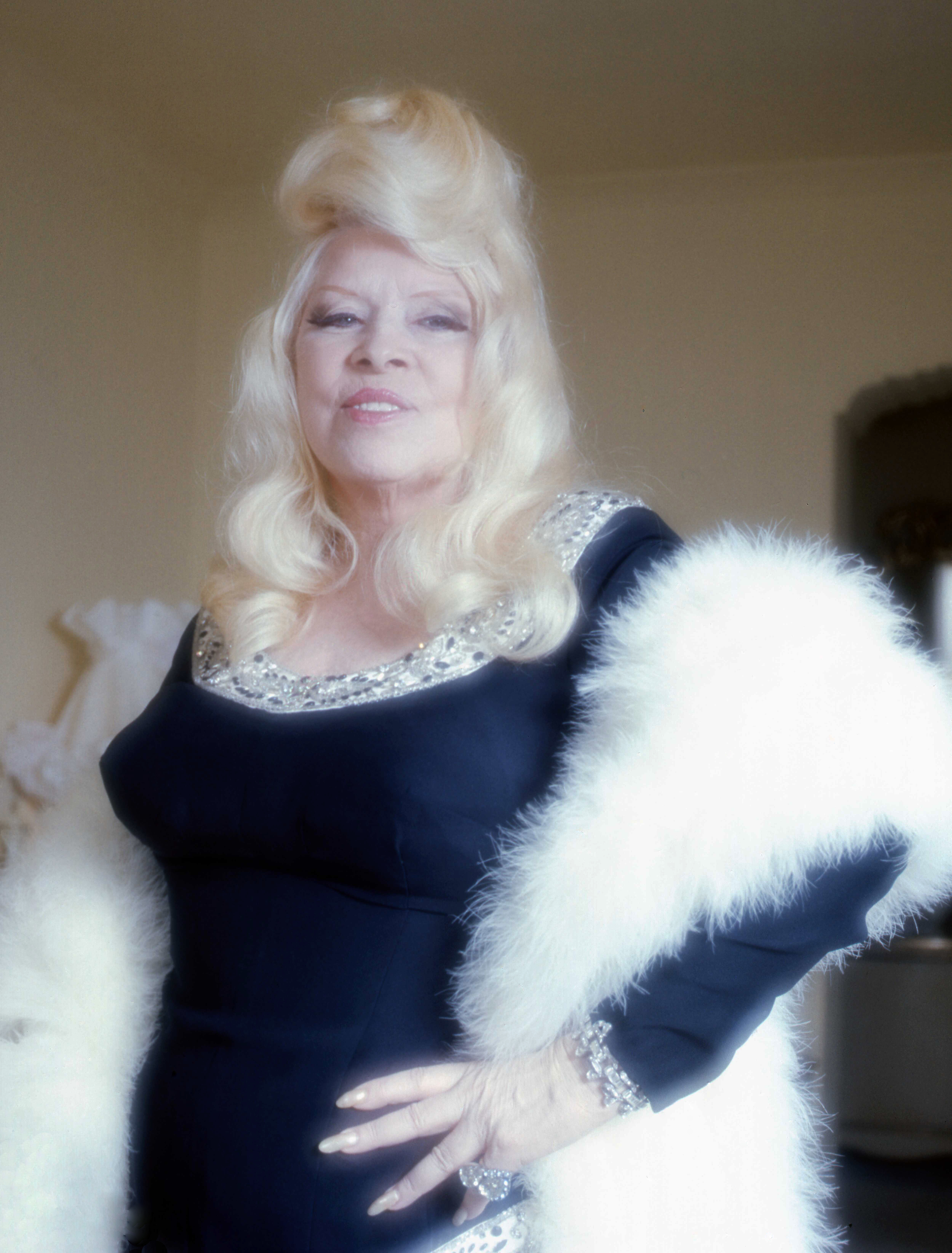 Mae West at home in her apartment Ravenswood Los Angeles dressed for tea.